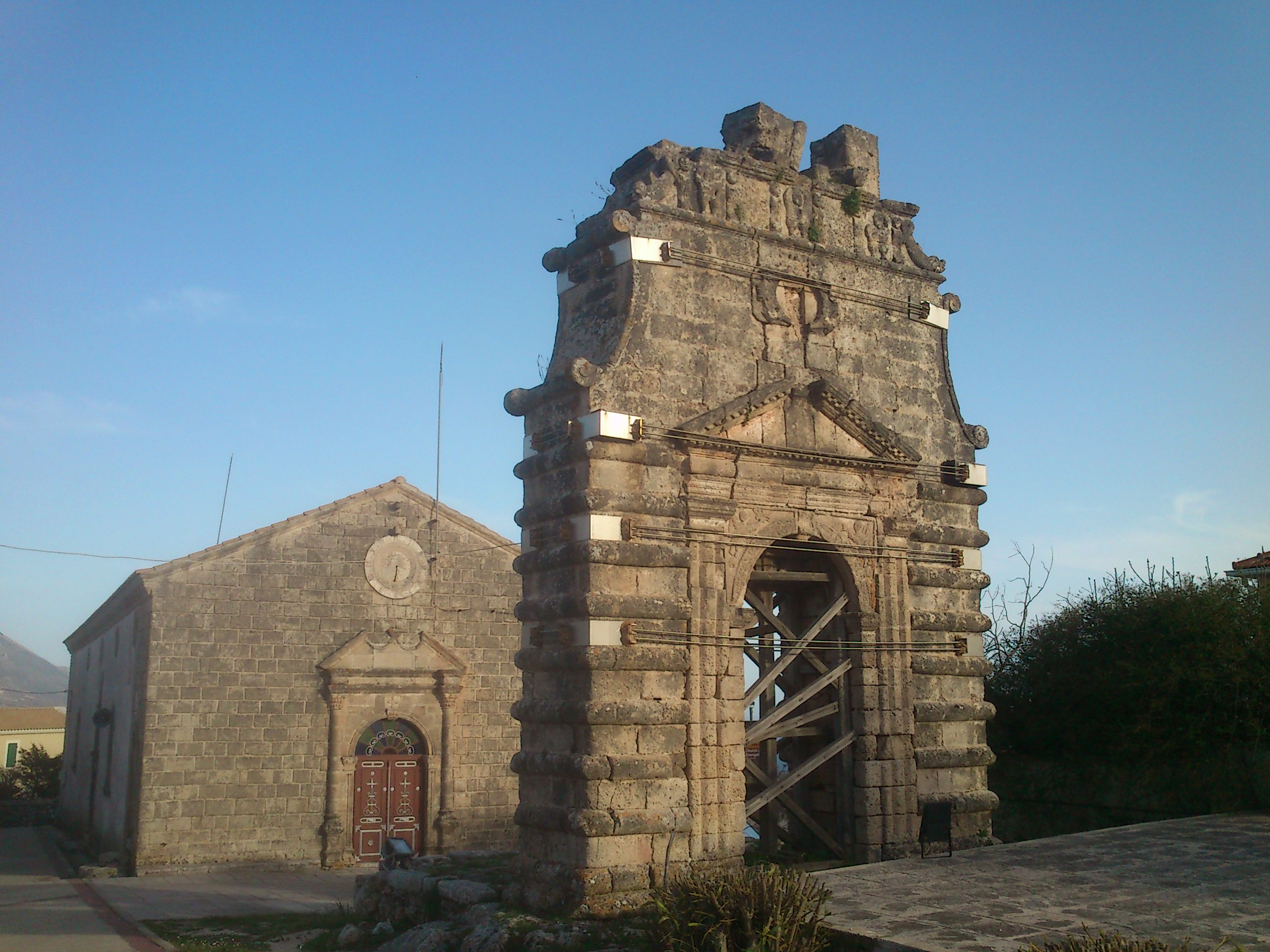 The church of Virgin Mary's Annunciation at the village of Kastro in Kefalonia (The Suburb of St. George's Castle, the capital of Cephalonia until 1757).